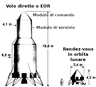 Apollo Program : Comparison of lunar lander size between Direct Landing mode and Lunar Orbiting Rendezvous (LOR)